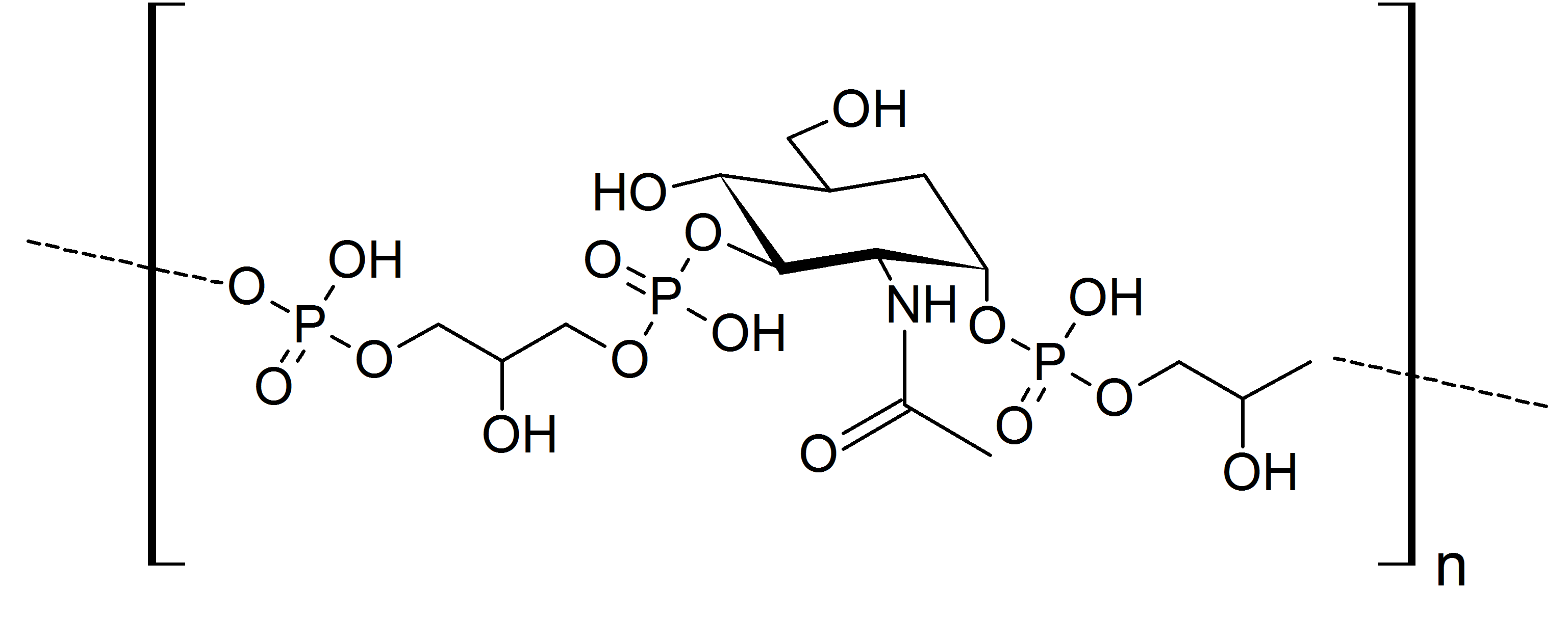 Structure of Teichoic acid from Micrococcaceae